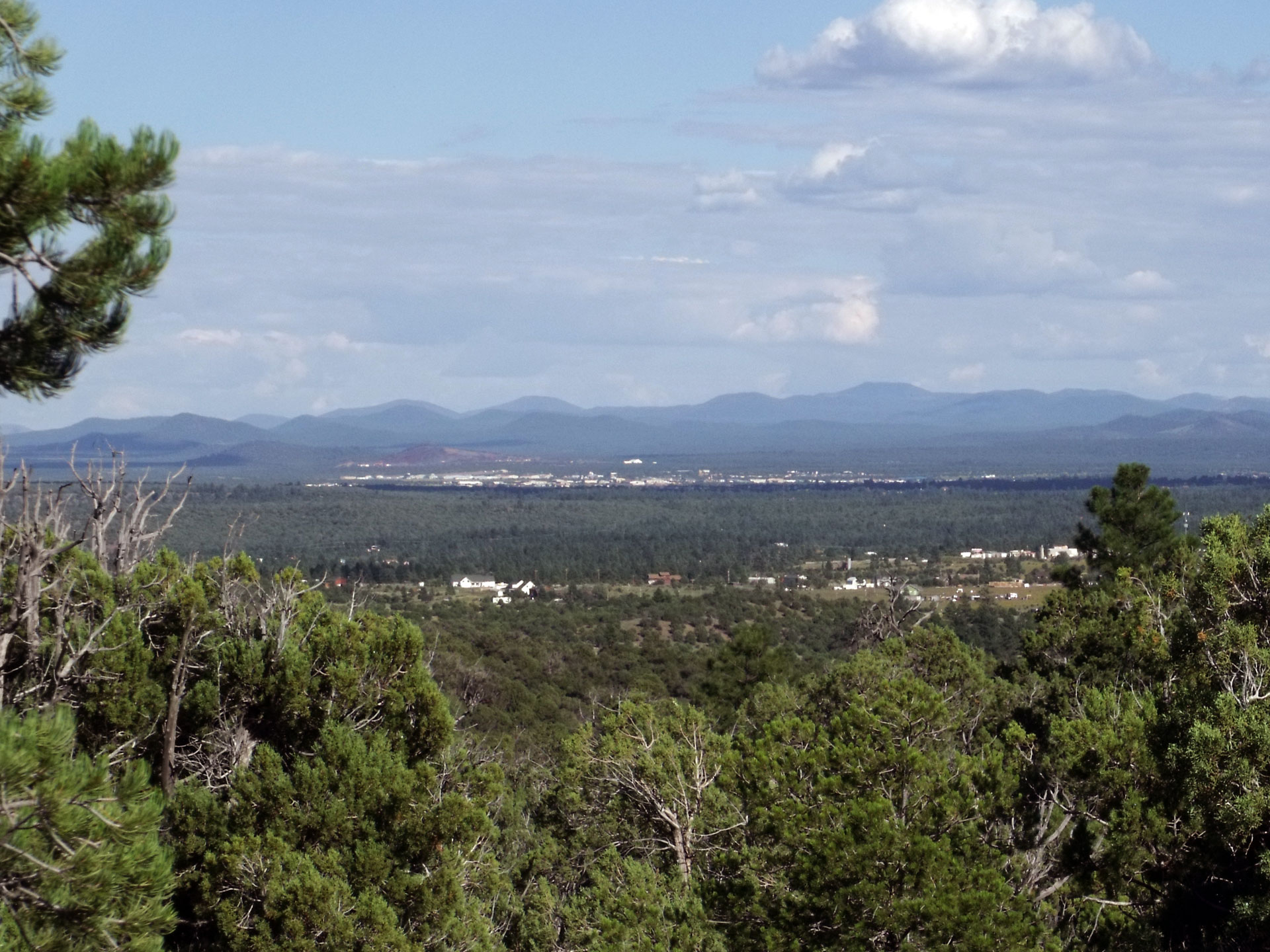 Photograph of the city of Show Low, Arizona taken from the northwest hills in the unincorporated area of Linden.